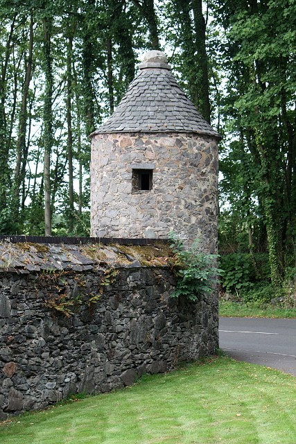 Turret on the boundary of the old Swithland Hall, Swithland, Leicestershire, one of two still in existence.